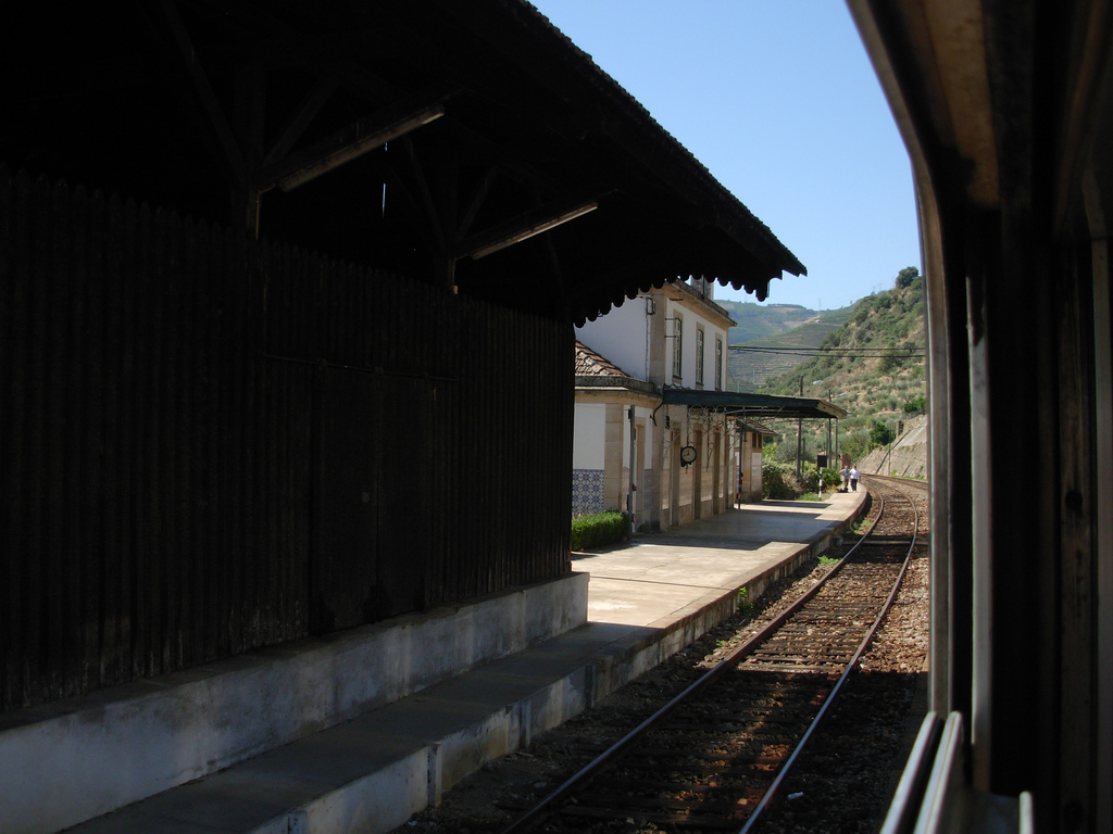 Covelinhas Station, in the Douro Line, Portugal